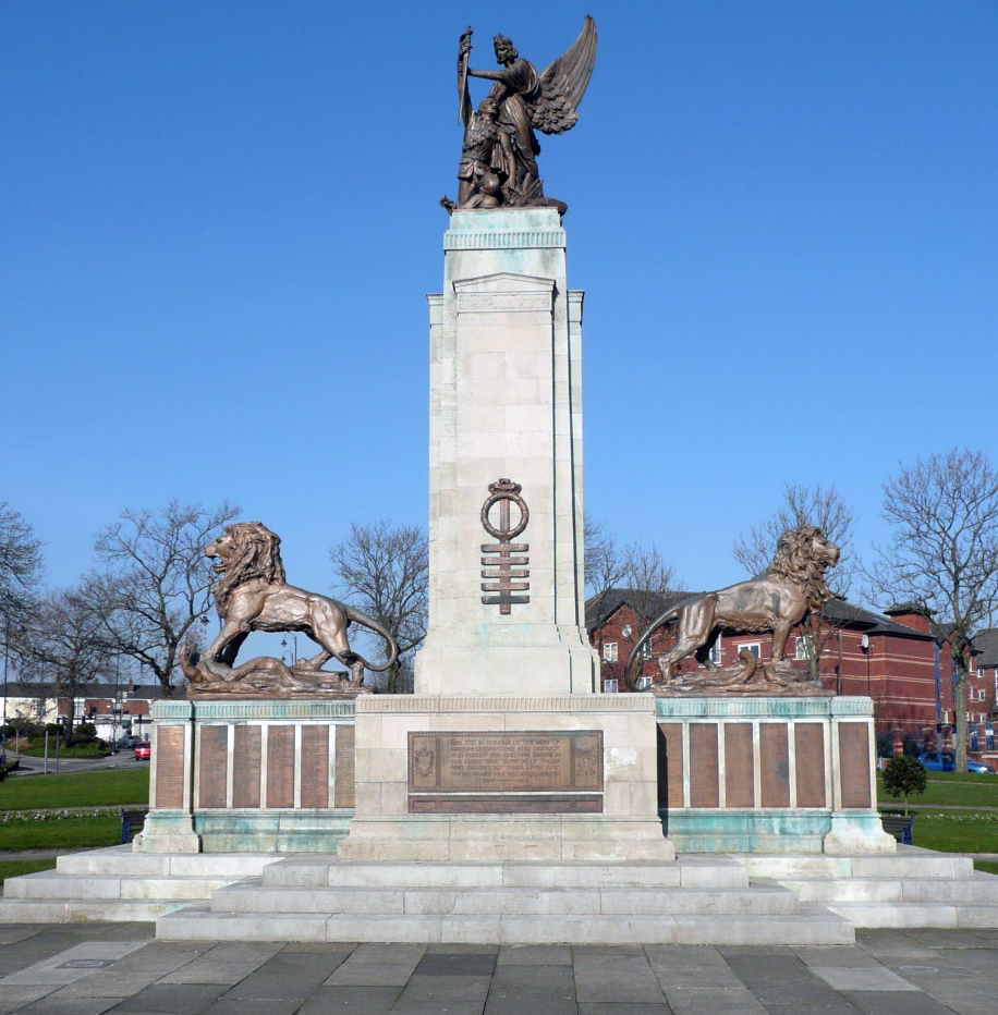 Photo of Ashton-under-Lyne war memorial, in Ashton-under-Lyne, Greater Manchester, England. Seen from the south.